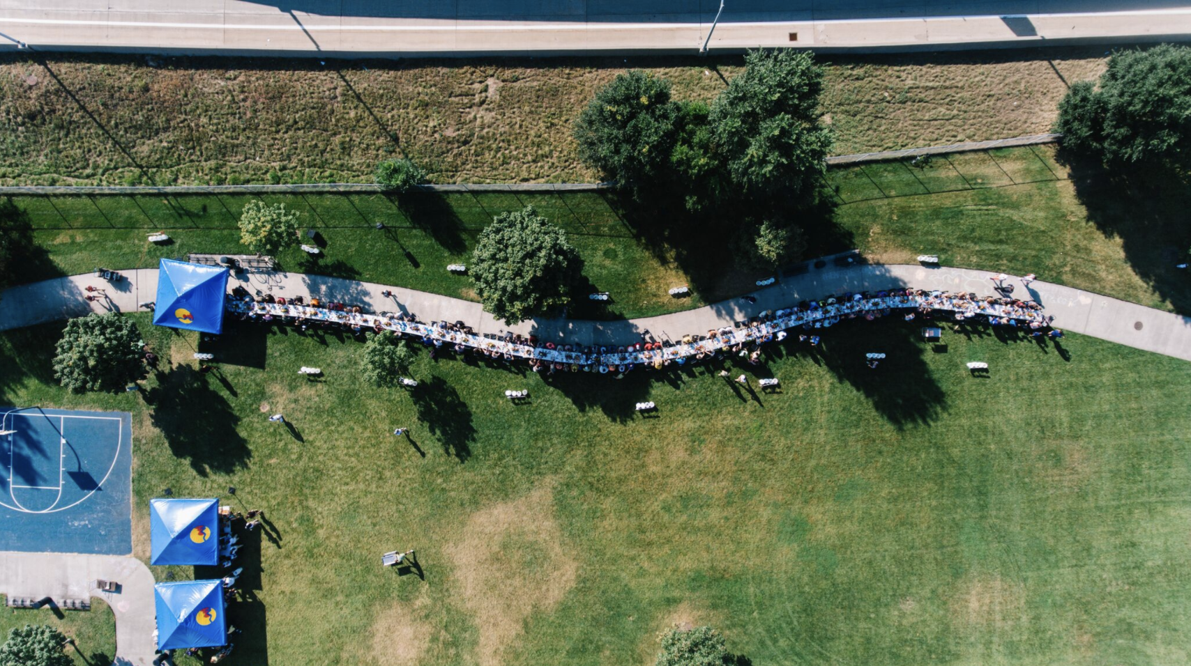 200 people sitting at a long table.